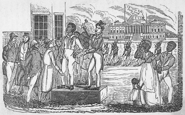 19th century engraving depicting a Slave Auction in South Carolina.